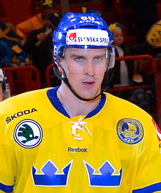 Mattias Sjögren during Oddset Hockey Games against Russia (2-0) at the Ericsson Globe in Stockholm on May 4th, 2014.